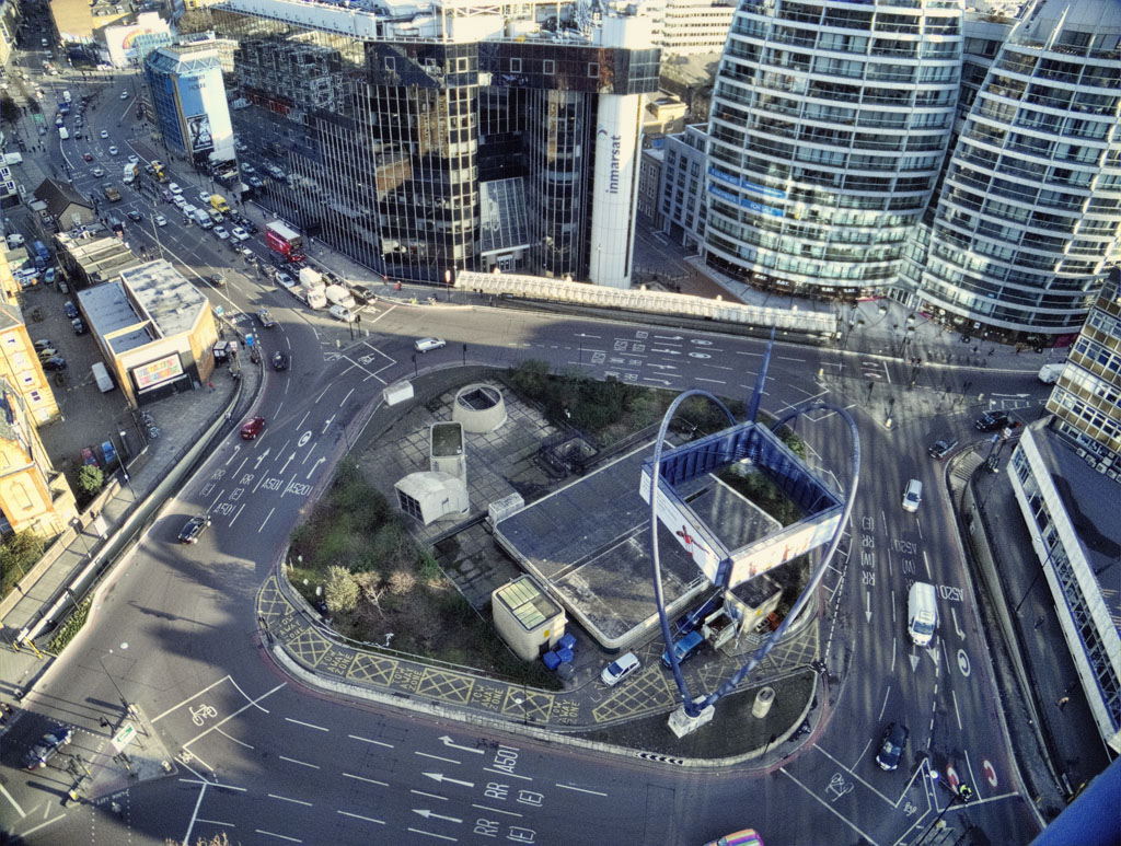 Looking down on Old Street Roundabout.